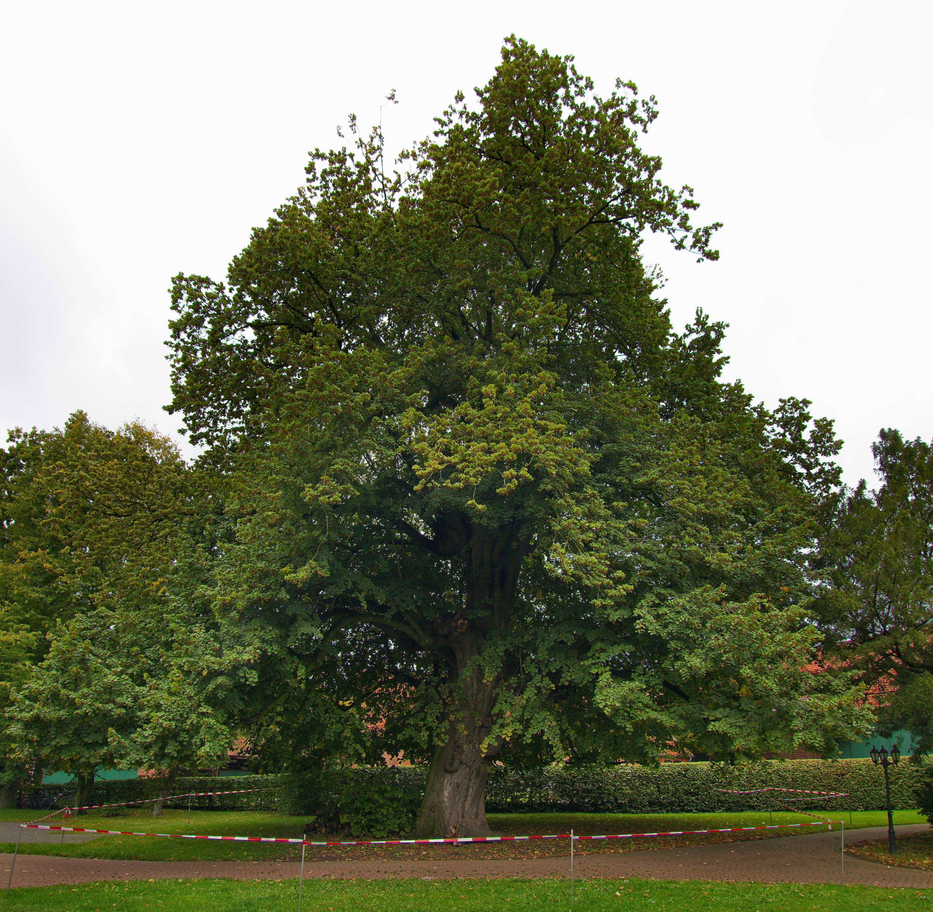 450jährige Linde in Binnen, Niedersachsen, Deutschland